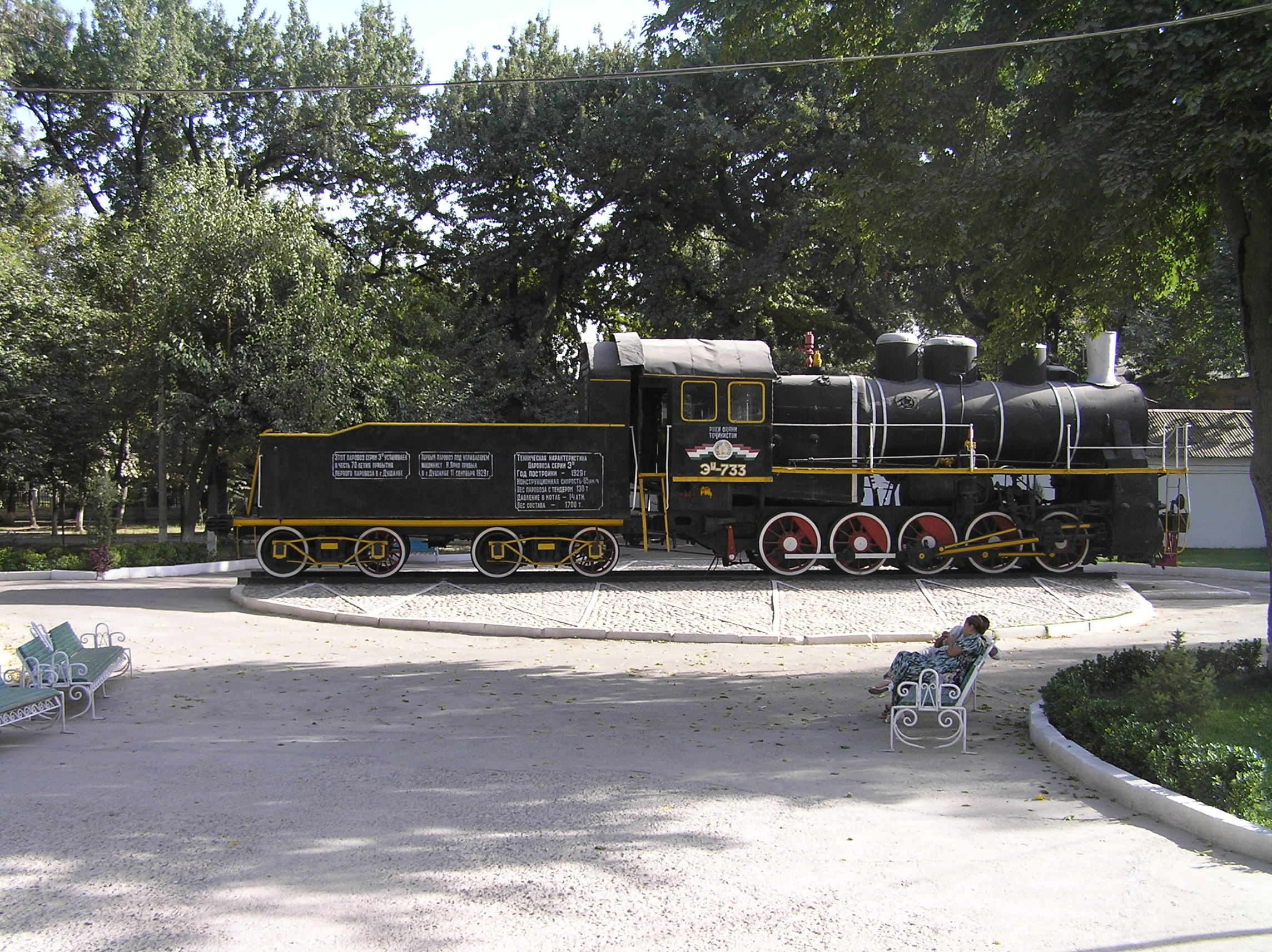 Eu-733